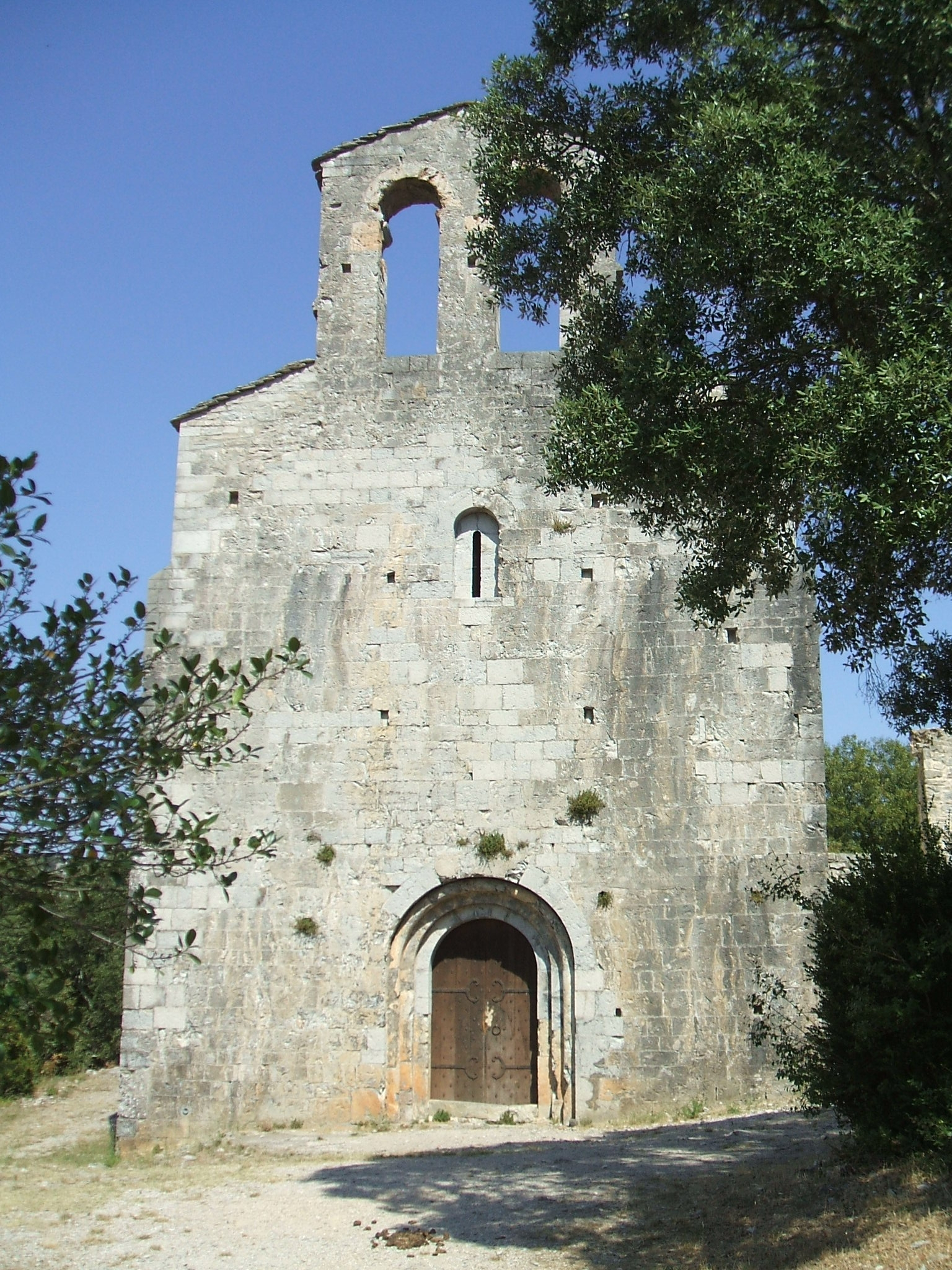 Saint-Etienne d'Issensac Chapel (Chapelle Saint-Etienne d'Issensac), located near the town of Brissac (département of Brissac, Languedoc-Roussillon région, France) : western facade